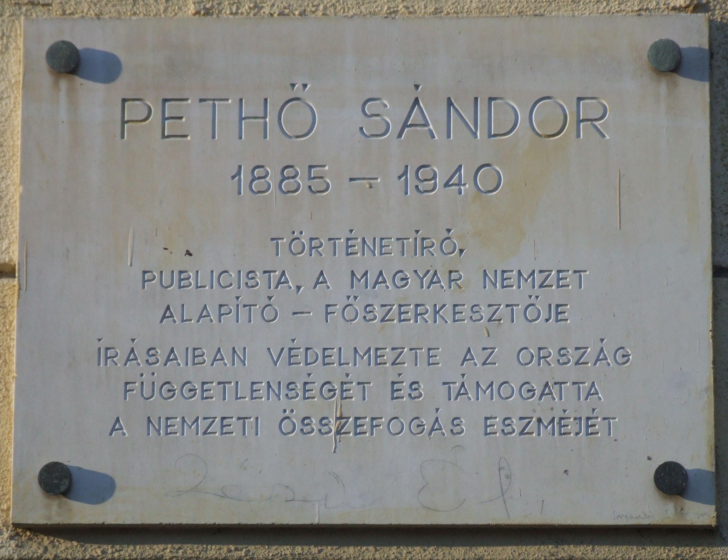 Sándor Pethő commemorative plaque in Budapest District VI, Pethő Sándor Street No 4.